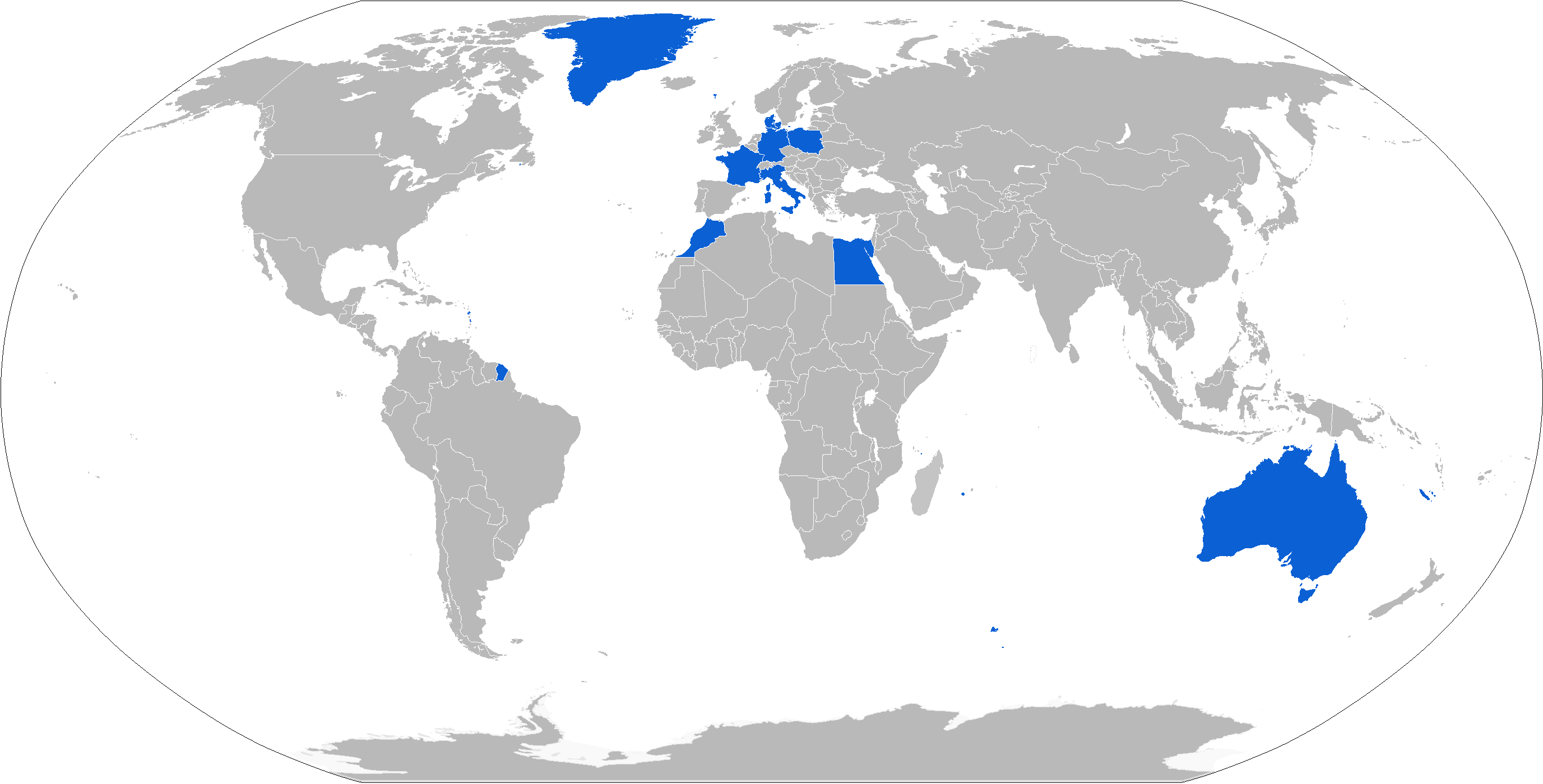 MU90 Impact operators map